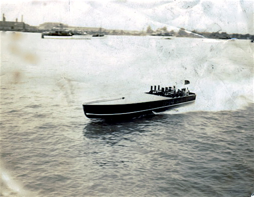 Racing on the Detroit River